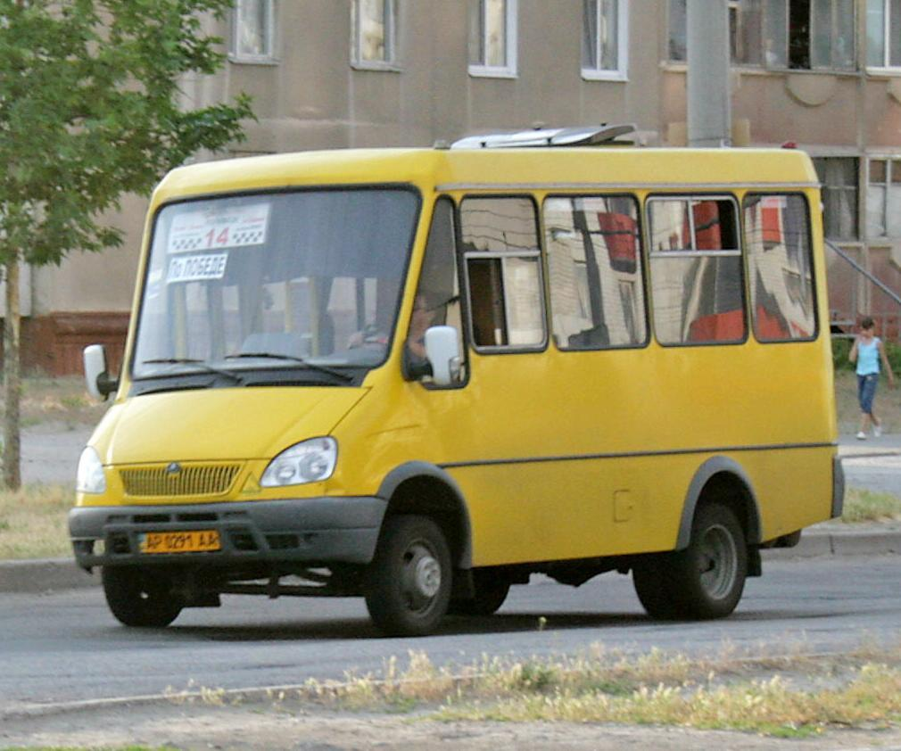 BAZ 2215 Delfin bus (AP 0291 AA) in Zaporizhia, Ukraine.